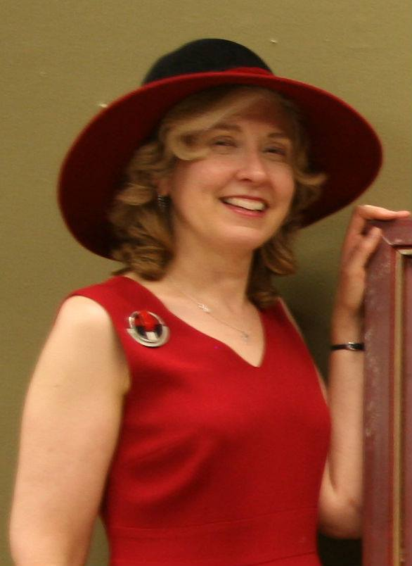 Virginia Postrel, cropped